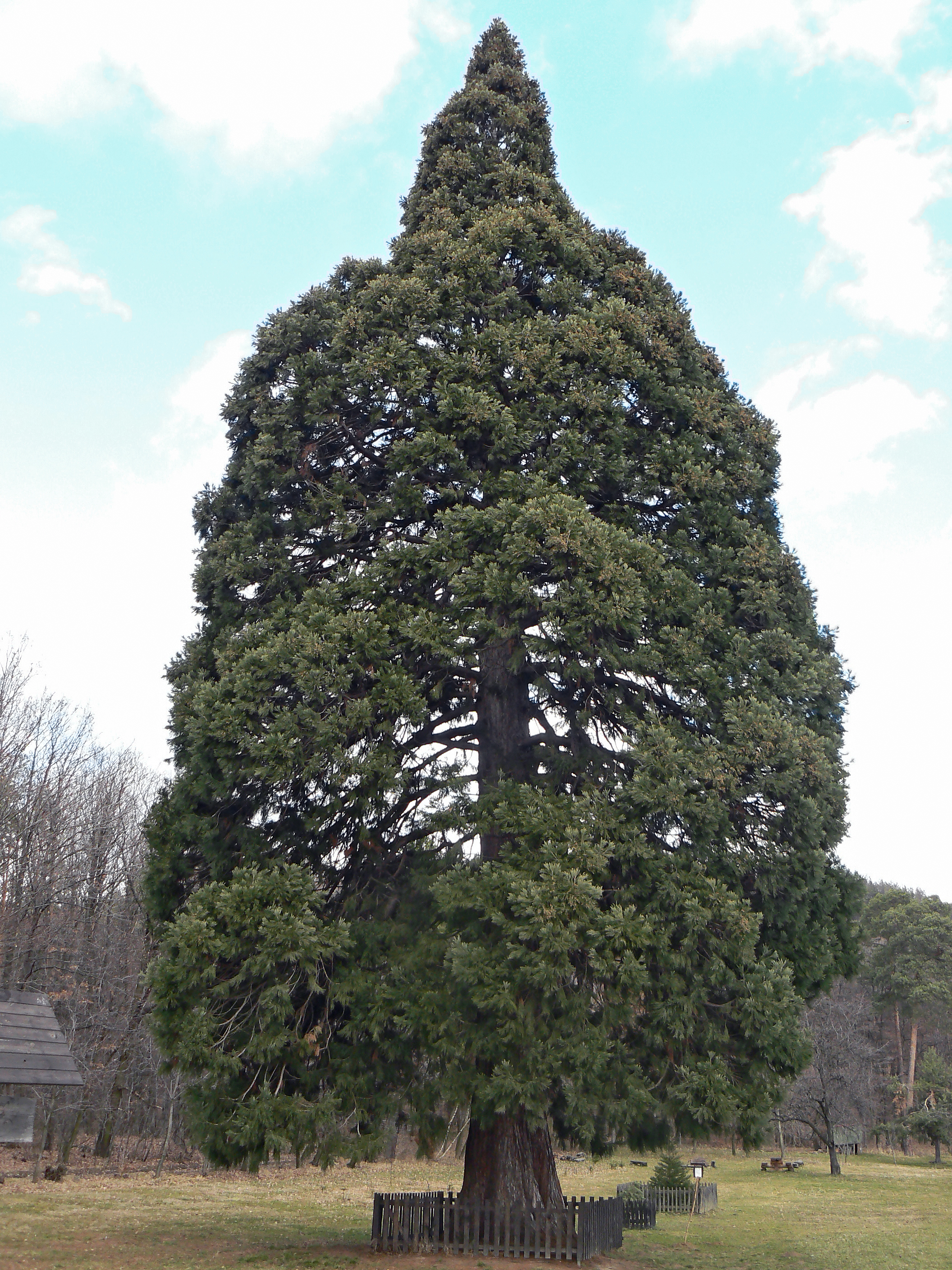 Břestek, Uherské Hradiště District, Czech Republic, part Chabaně.